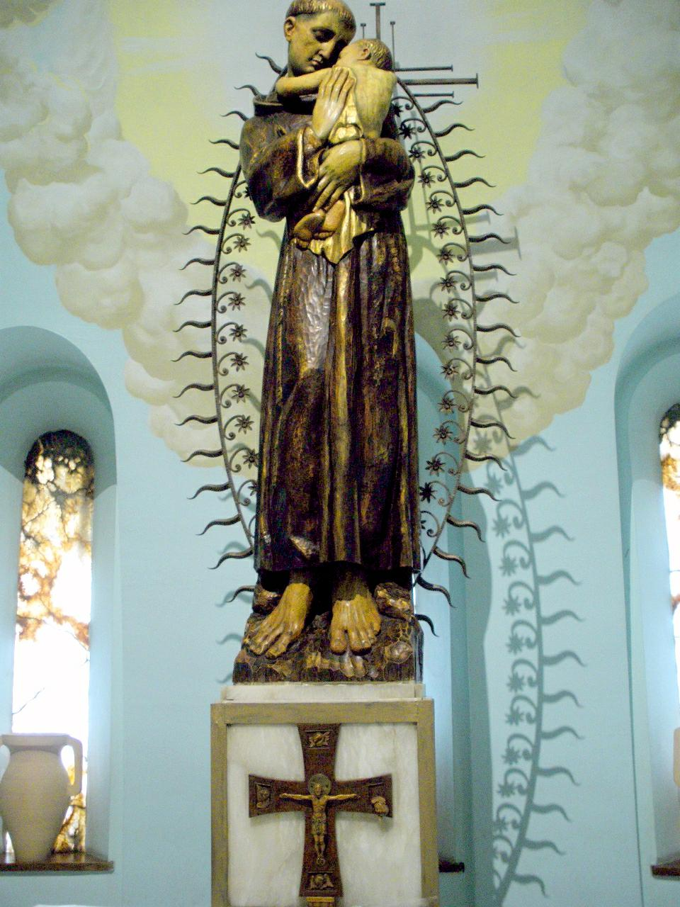 Talla de San Antonio de Padua, en la iglesia a él dedicada en Zaragoza (España)